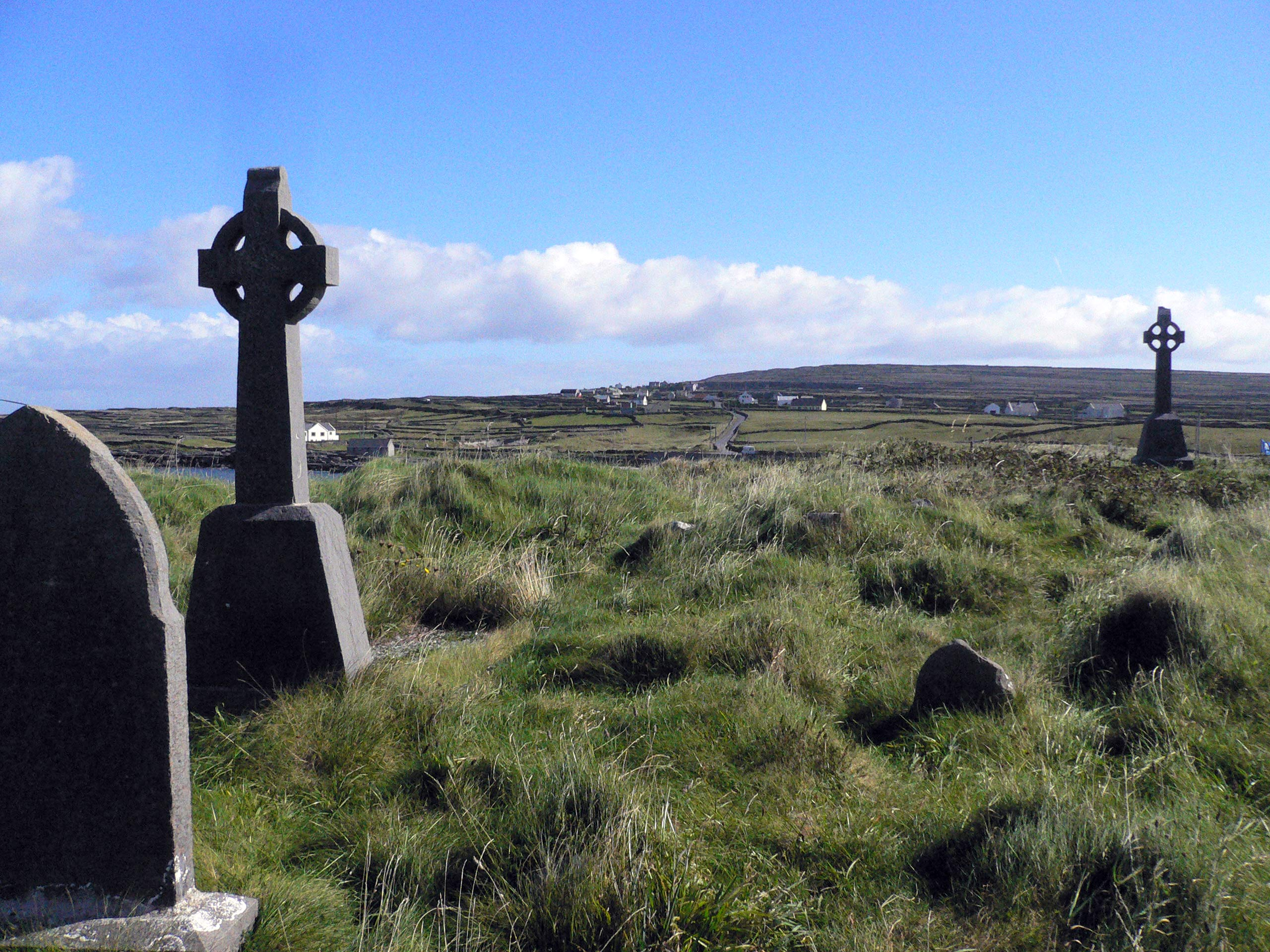 Irishness